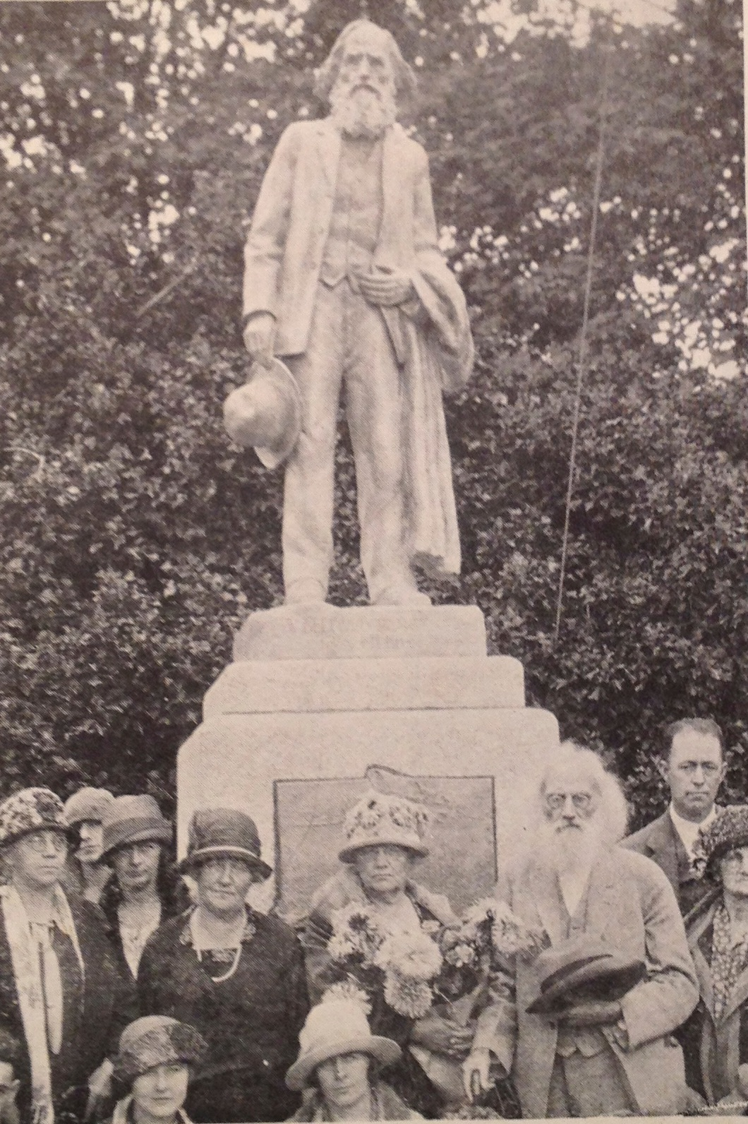 Ezra Meeker at the dedication of the statue to himself, September 14, 1926, Pioneer Park, Puyallup, WA